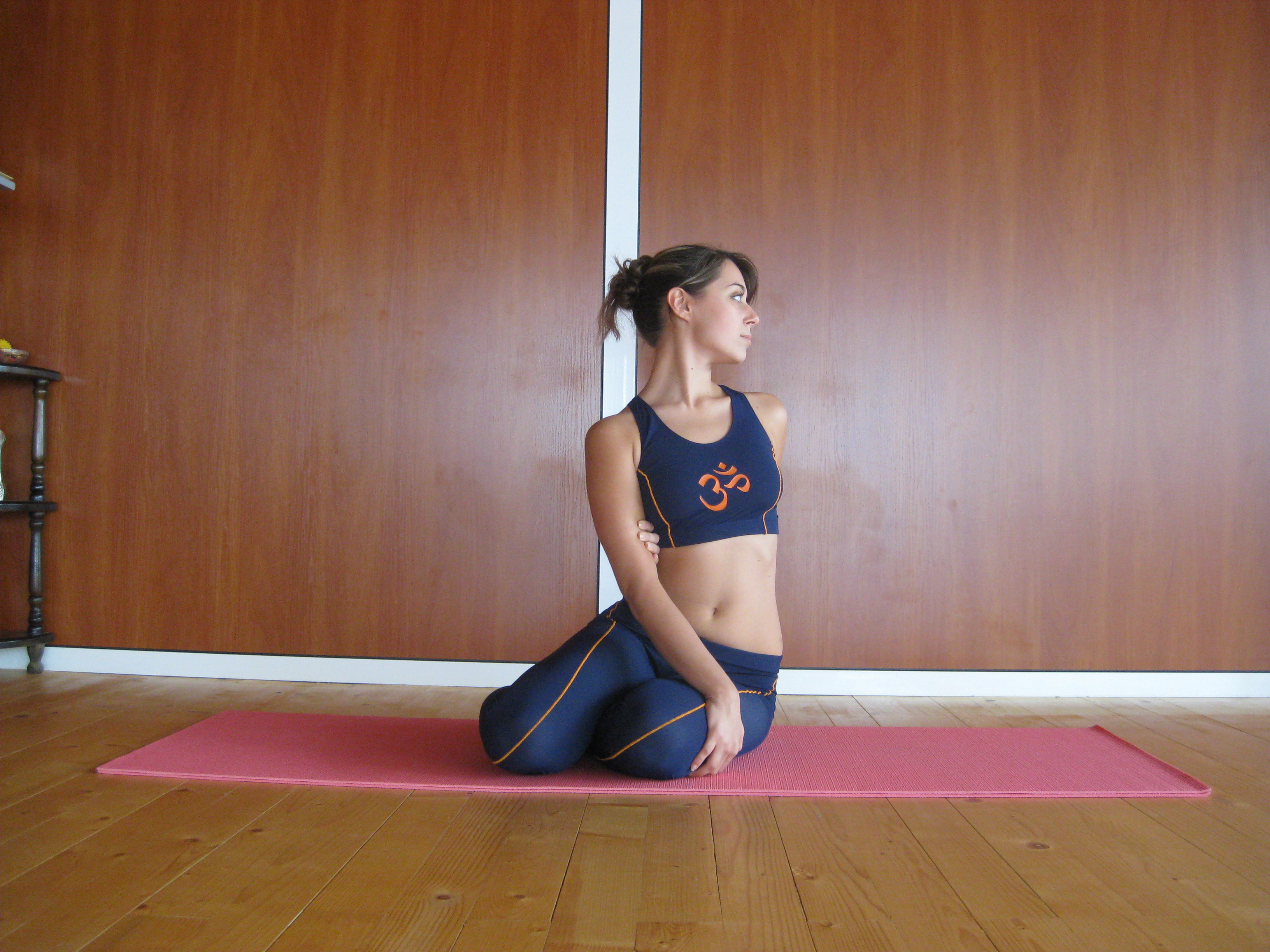 Bharadvaja's Twist